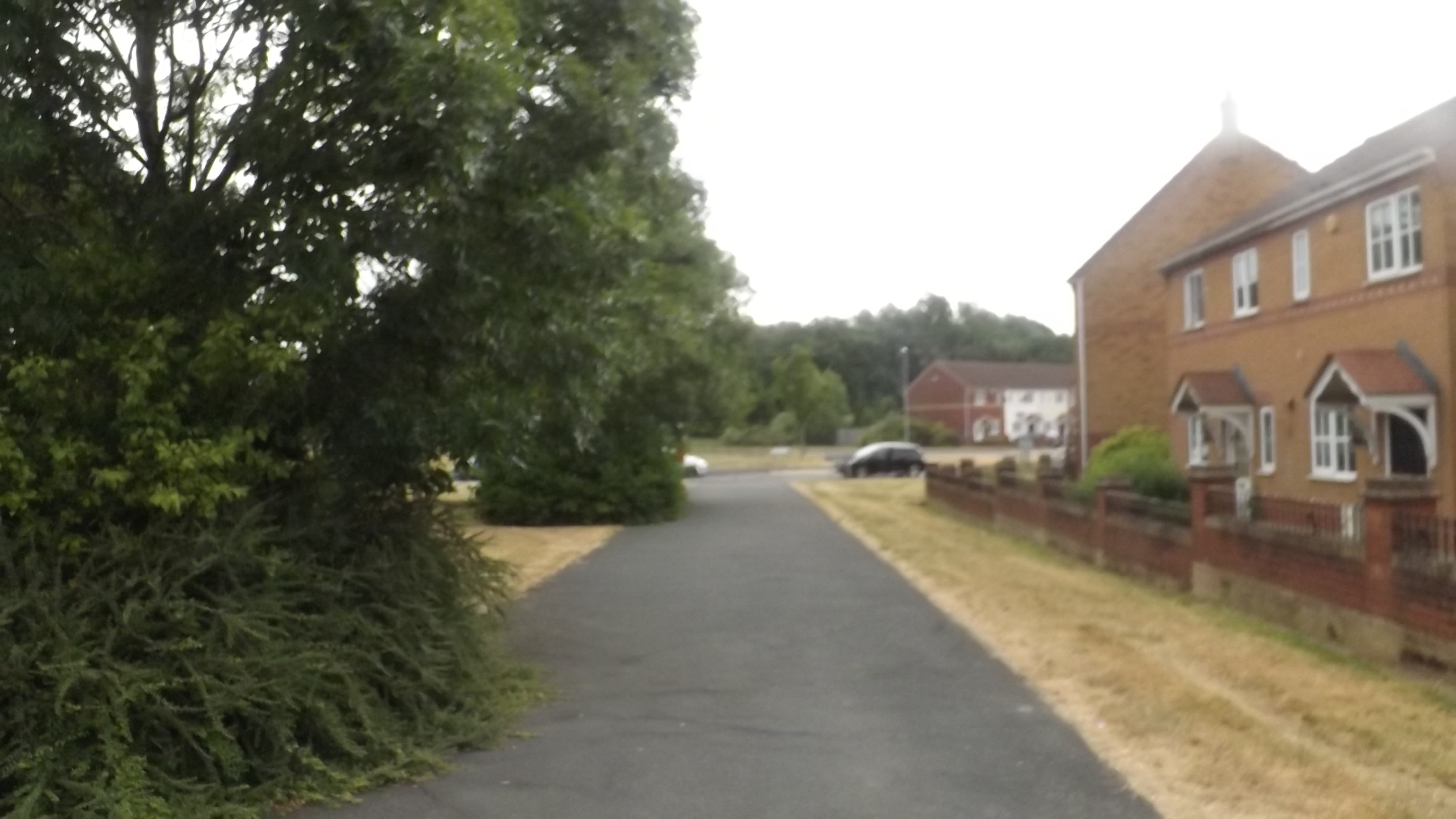 My own.